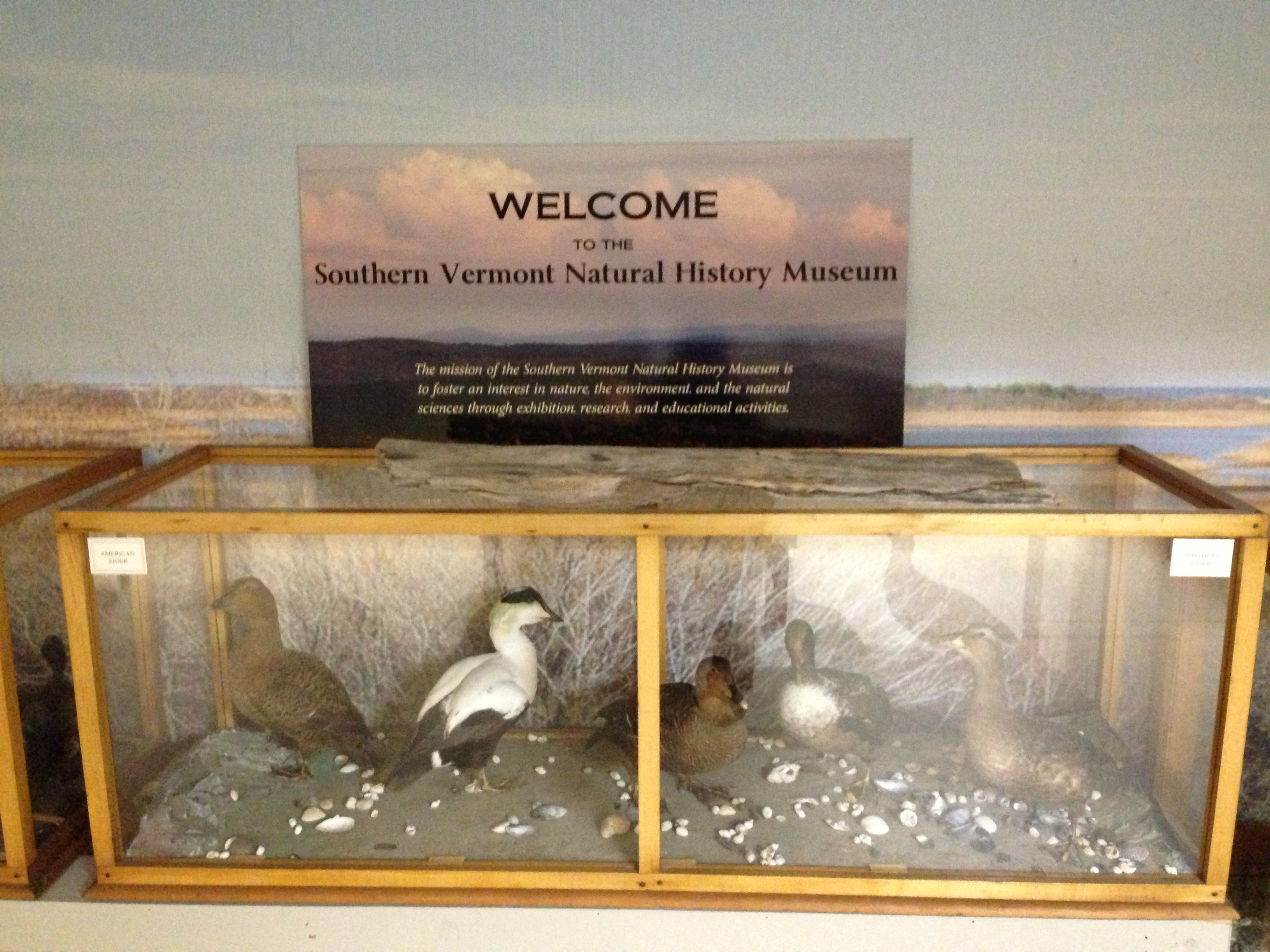 Welcome to the Southern Vermont Natural History Museum